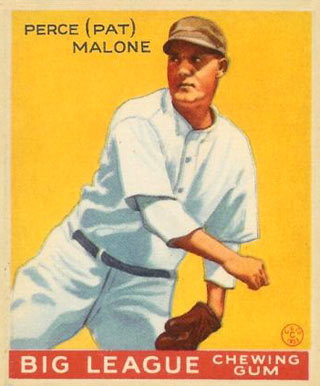 1933 Goudey baseball card of Pat Malone of the Chicago Cubs #55.